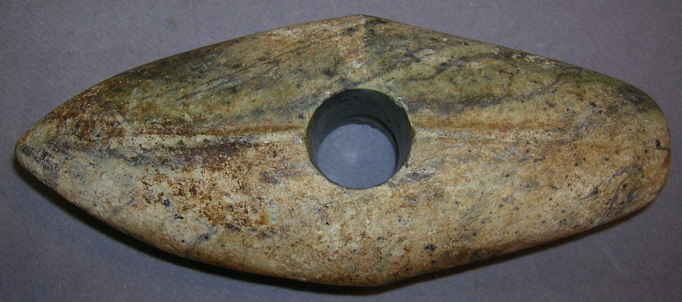 Socalled «battle-axe» (Streitaxe) or boat axe of Swedish-Norwegian type, 2800-2400 BC. Discovered the summer of 2003 by a Danish tourist (fisher) at the river of Eiterå, Dunderland, in Rana municipality, Nordland, Norway. Handed over to the cultural department of Rana Museum on 1 July 2004. Photo 21 May 2007 with a NIKON Coolpix 5600 5,1 Megapixel camera.